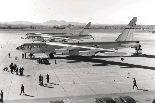 Three B-52Bs of the 93rd Bombardment Wing prepare to depart for Castle Air Force Base, Calif., after their record-setting round-the-world flight in 1957. Source: United States Air Force Historical Research Agency - Maxwell AFB, Alabama